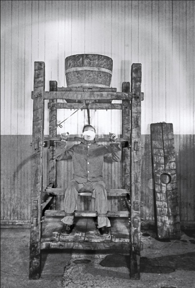 Water torture being executed in Sing Sing prison in 1860.